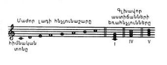 Major